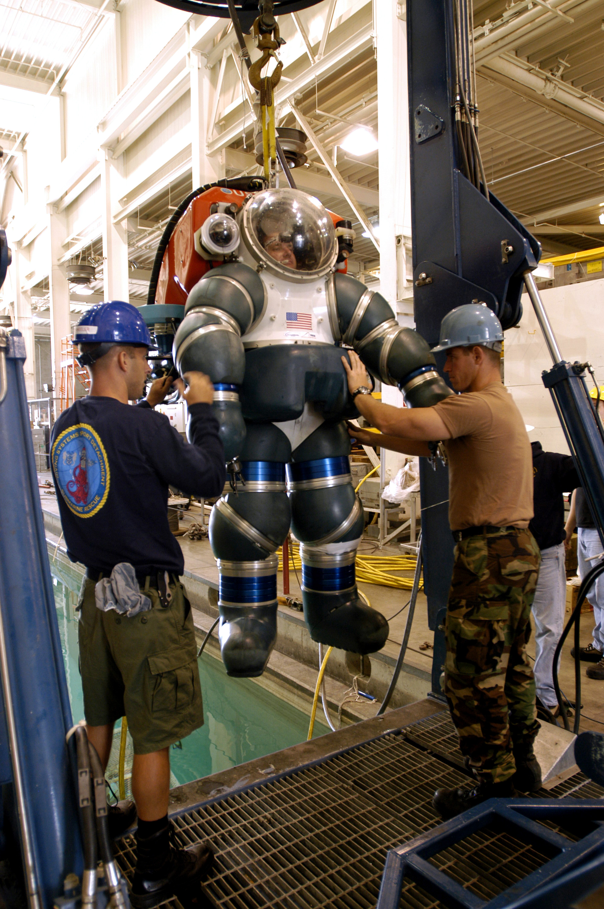 San Diego, Calif. (May 3, 2005) - Machinist Mate 1st Class Kris Wotzka and Damage Control Man 3rd Class Kenneth McCollum attached to the Deep Submergence Unit at Naval Air Station (NAS) North Island, assist launching Lt. Cmdr. Keith Lehnhardt in an Atmospheric Dive Suit (ADS) into a training pool for evaluation. The primary use of the ADS is for Submarine rescue missions. U.S. Navy photo by Photographer’s Mate 2nd Class Prince Hughes III